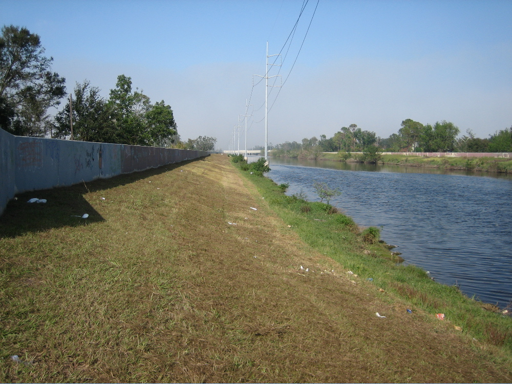 New Orleans: An intact portion of the 17th Street Canal (notorious for the flooding after Hurricane Katrina). View is looking lakewards, half a dozen blocks back from Metarie Road, on the Metairie side of the Canal. Note concrete flood walls atop the levees.